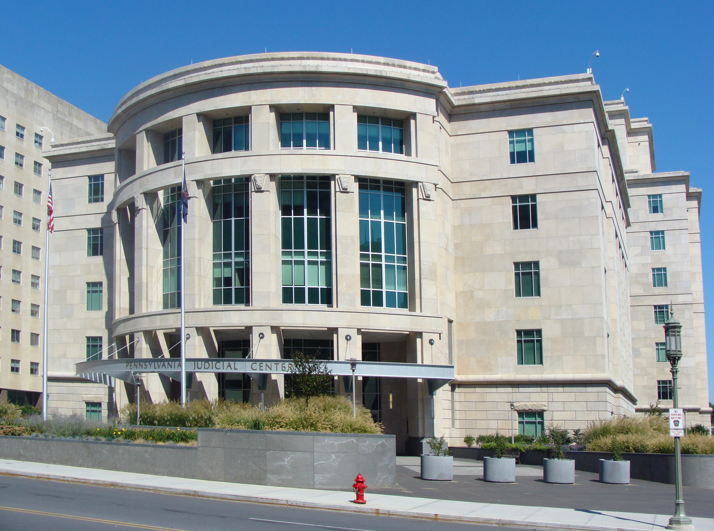 The Pennsylvania Judicial Center in Harrisburg, Pennsylvania. It is a part of the Pennsylvania State Capitol Complex.